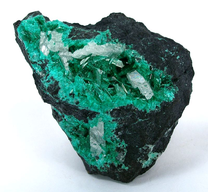 Adamite, Schultenite Locality: Tsumeb Mine (Tsumcorp Mine), Tsumeb, Otjikoto (Oshikoto) Region, Namibia (Locality at ) Size: miniature, 3.9 x 3.2 x 2.1 cm Schultenite on Adamite var. Cuproadamite Nestled in a vug of massive black ore are gemmy and glassy, bright green crystals of cuproadamite, to .5 cm across. Associated with the cuproadamite are large crystals, to 1.0 cm across, of colorless, glassy and gemmy schultenite: a rare, lead, hydrogen arsenate. This is a VERY VERY rare species! Any specimen should be worht something, and a displayable rich miniature like this is the likes of which I have not seen for sale. The larger shard of schultenite is about 1.5 cm. the Sharper, but smaller complete crystals are about 7 mm. There is a 1 cm cleaved crystal showing a cleavage plane frontally on the bottom, as well.